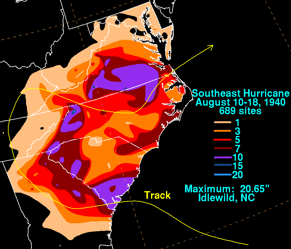 Storm total rainfall map of the Georgia – South Carolina hurricane during August 1940.